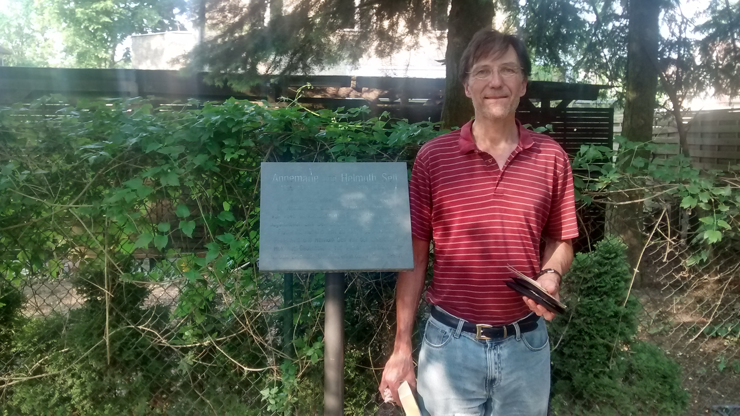 Dr. Christian Sell, grandson of Helmuth and Annemarie Sell at the commemerative plaque in front of the house at Karl-Marx-Strasse 11 in Potsdam, Germany.